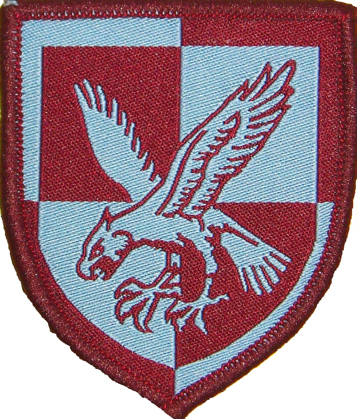 Author is C.E.Dowie. This is a picture of a 16th Air Assault Brigade patch taken from my collection of military badges.